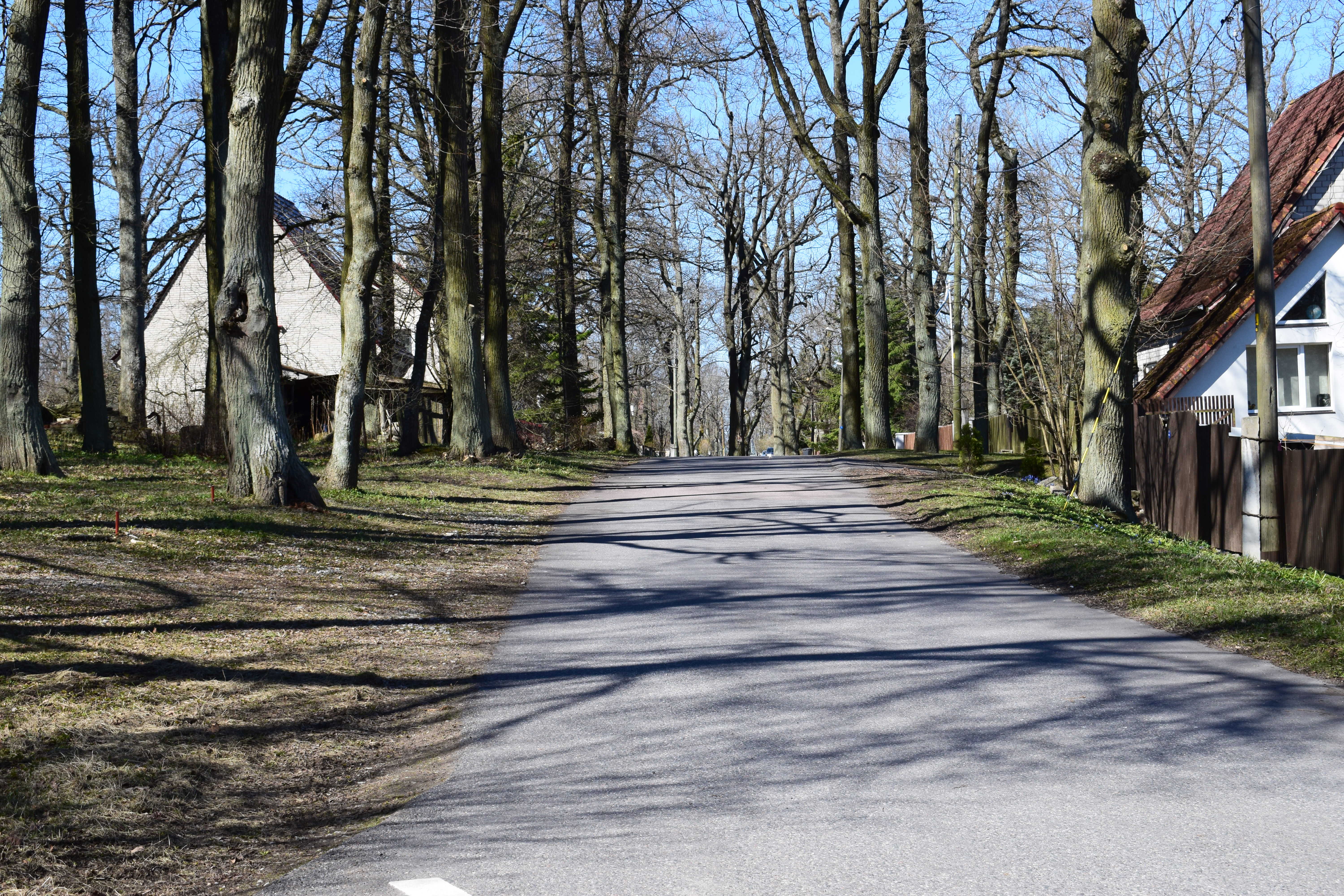 Paju street